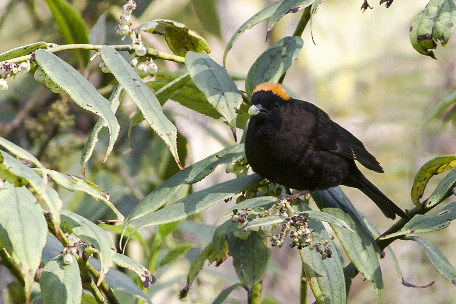 The specie Golden-naped Finch had been photographed from old Silk Route, East Sikkim, India on 23 April 2015 during birding tour of GoingWild.